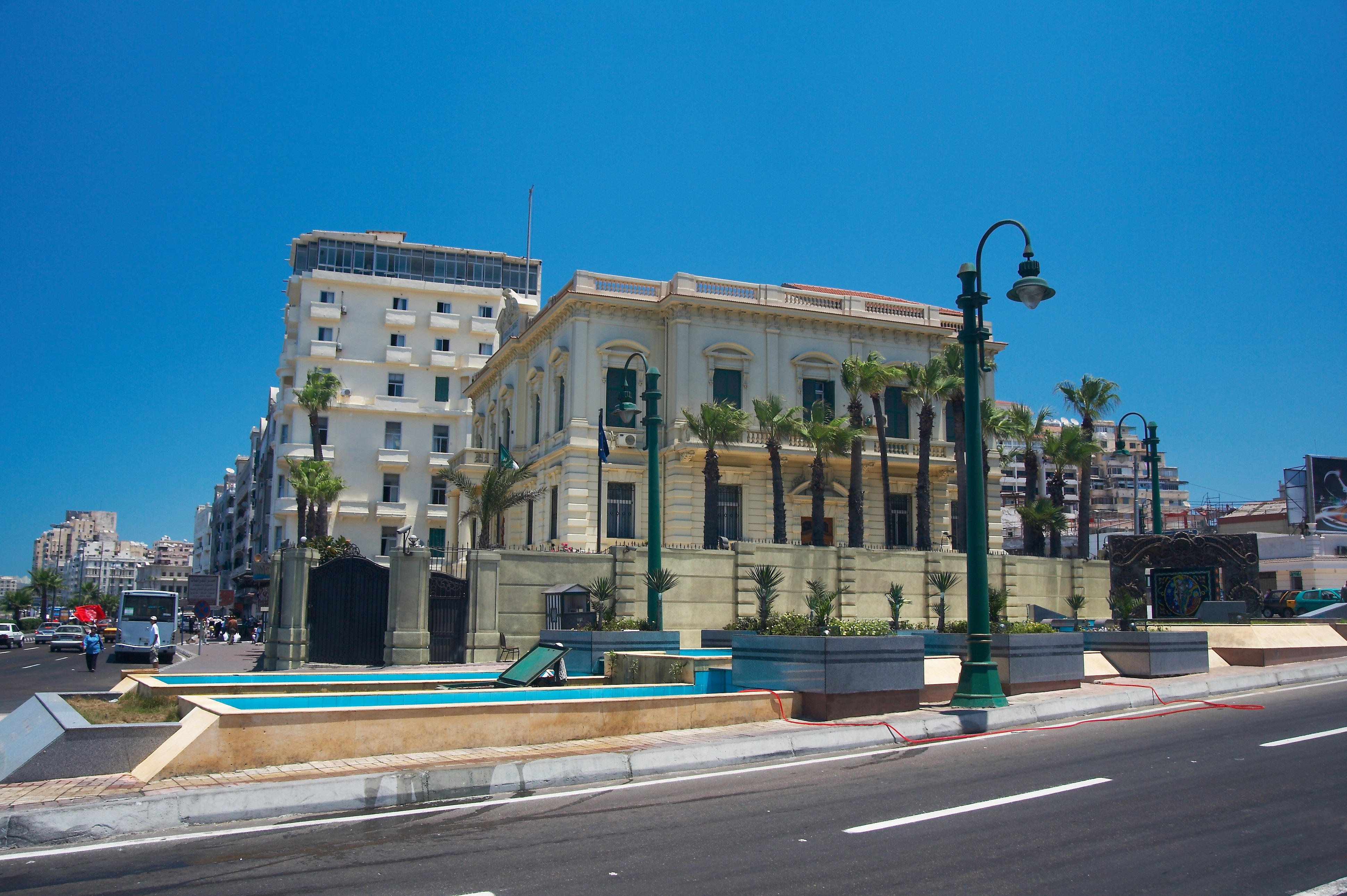 Consulate-General of Italy in Alexandria, Egypt